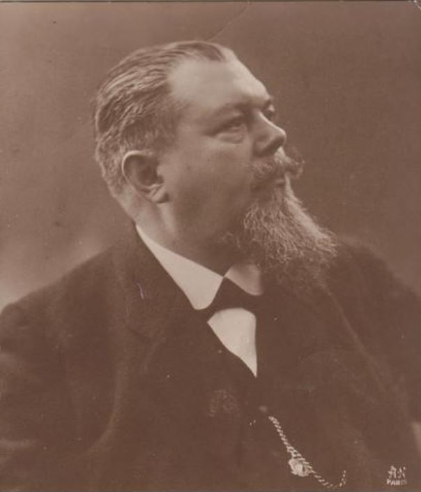 Portrait de Maurice Dubois (années 1920)